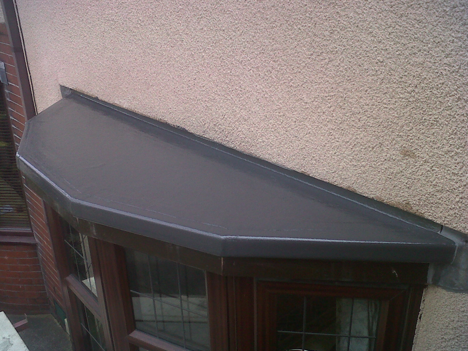 Fibreglass roofing undertaken by Crown Building Services Halifax